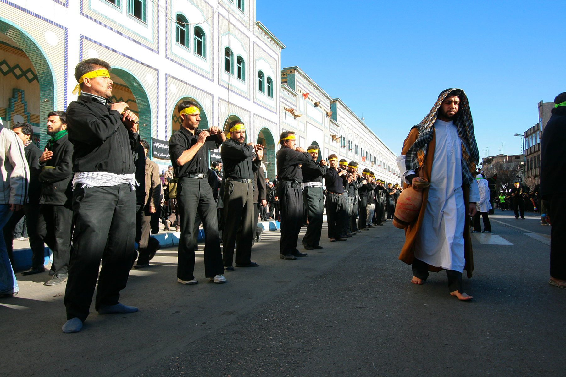 Mourning of Muharram